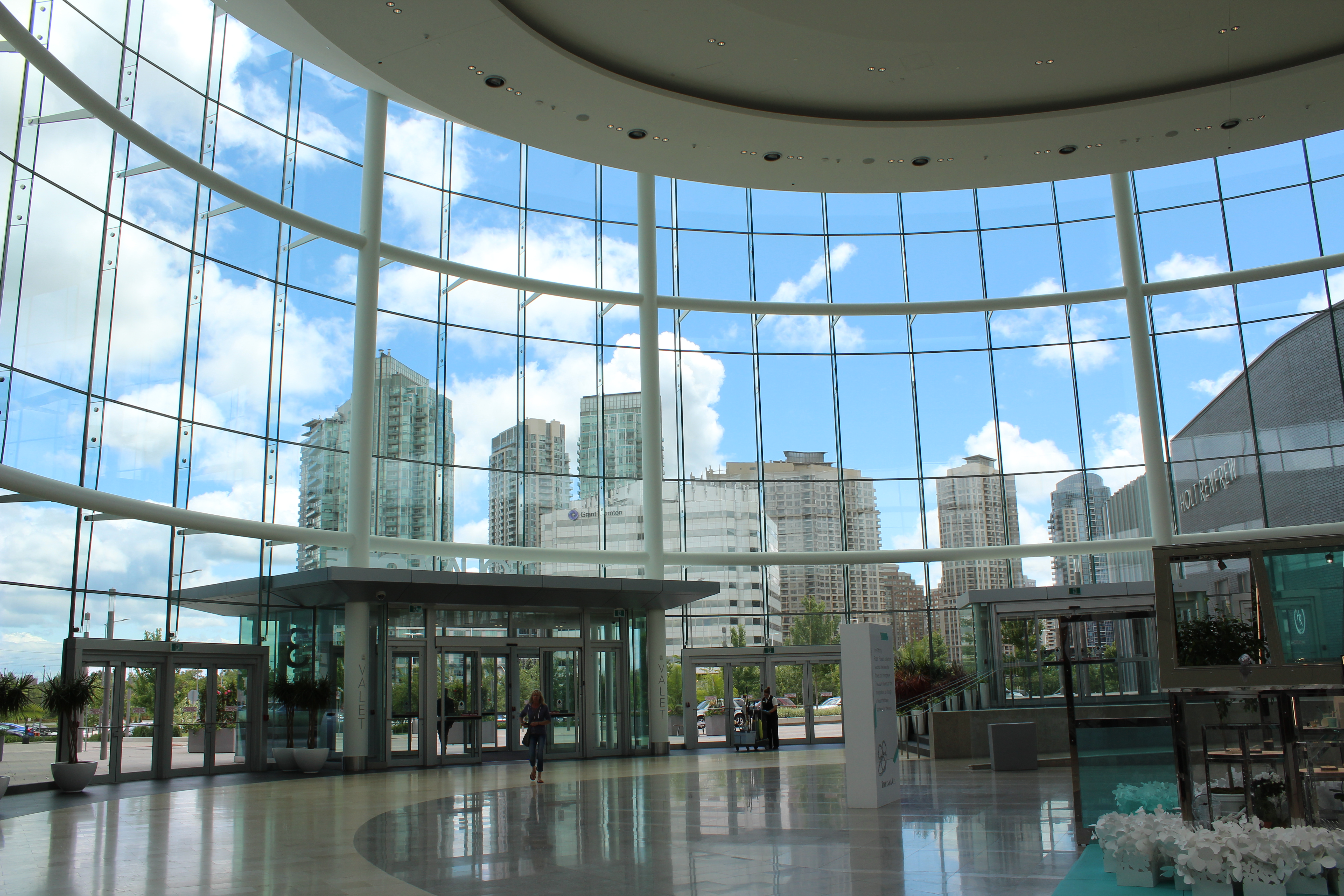 Square One Shopping Centre, Mississauga.View of entrance lobby from inside-out.